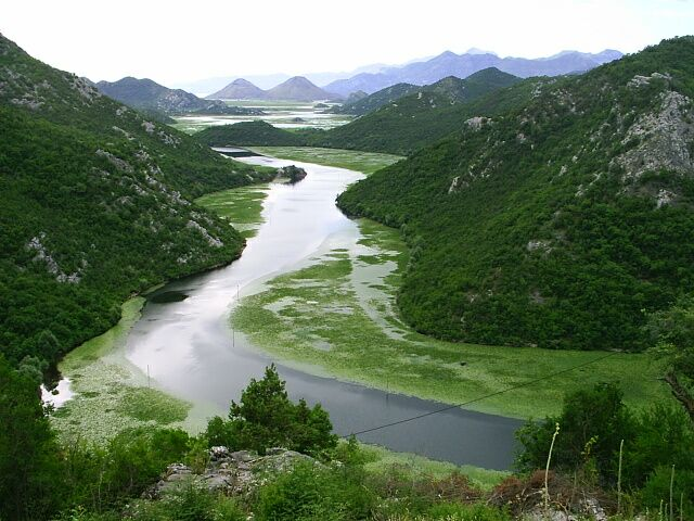 Crnojevića River in Montenegro